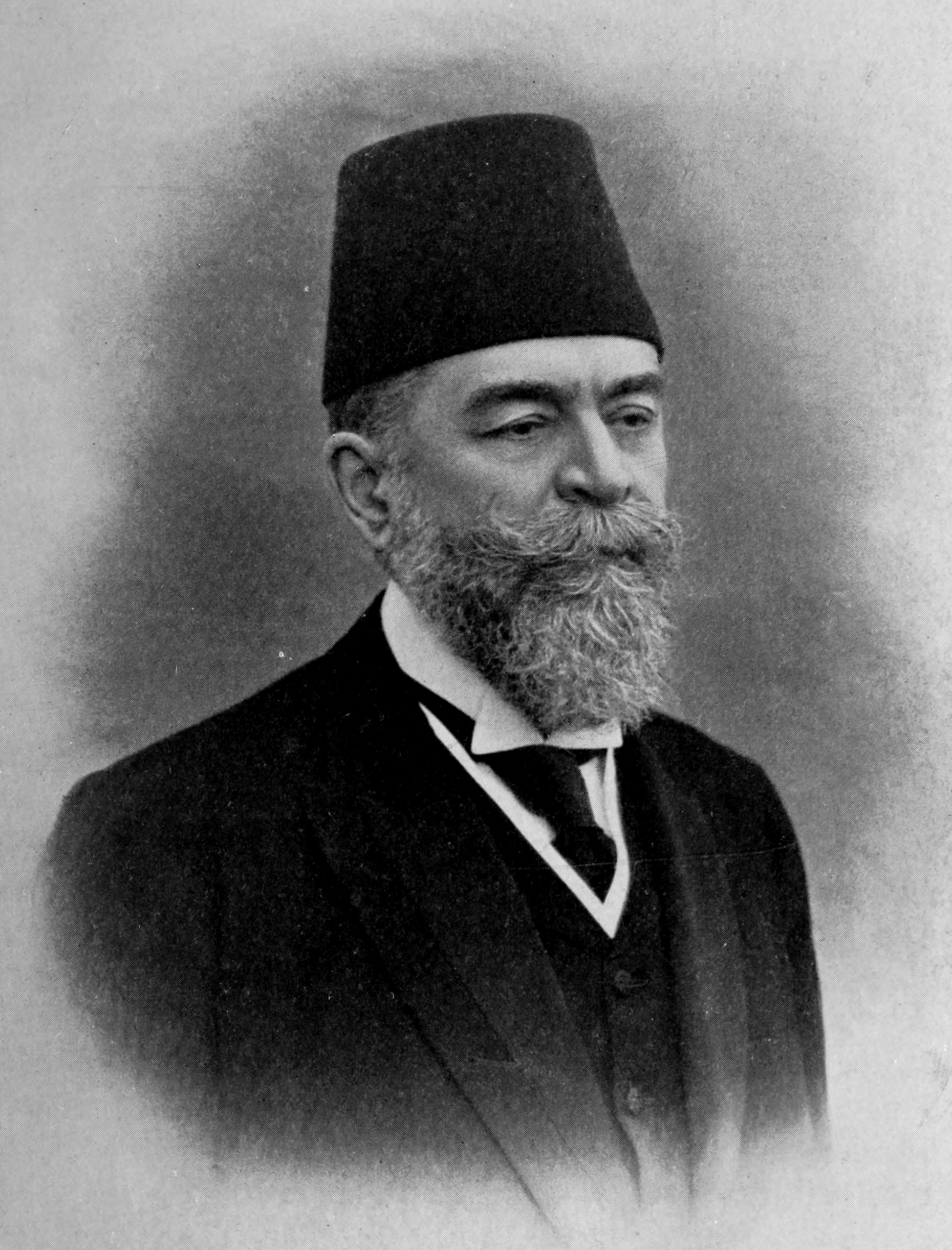 Mehmed Ferid Pasha, Ottoman grand vizier 1903-908